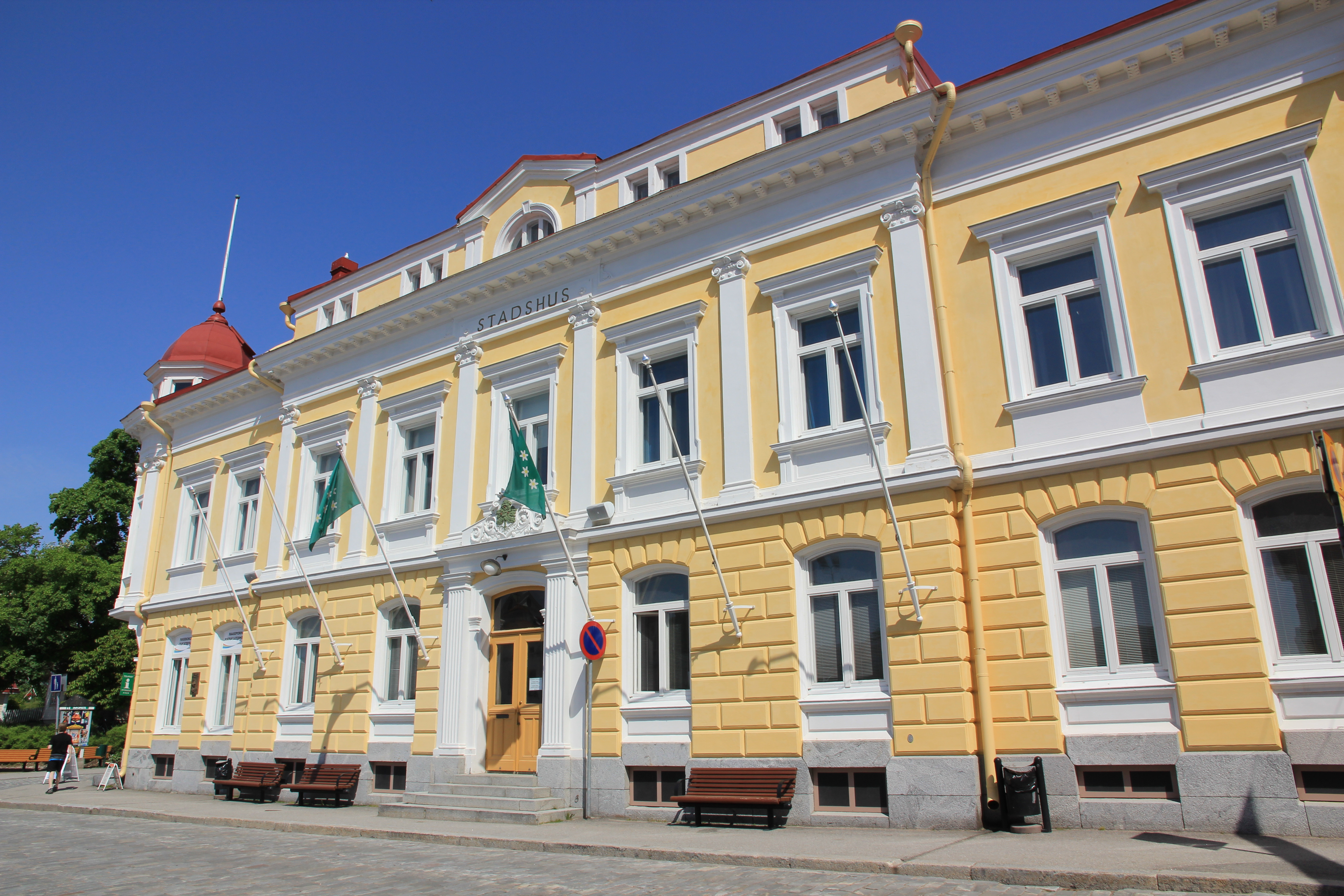 Ekenäs old town hall.